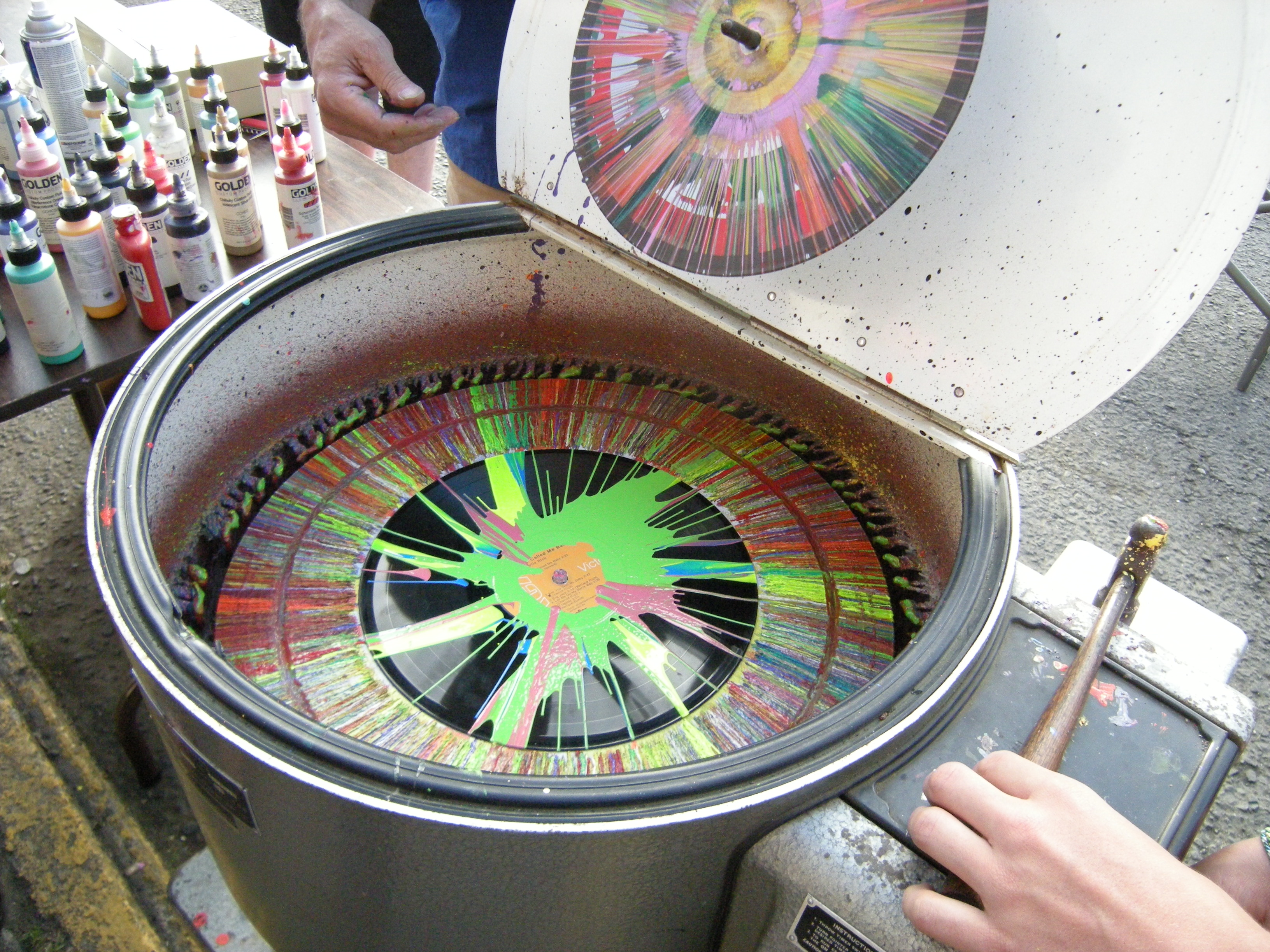 Making spin art out of old phonograph records, Artopia street fair, Georgetown, Seattle, Washington. This image is part of a sequence